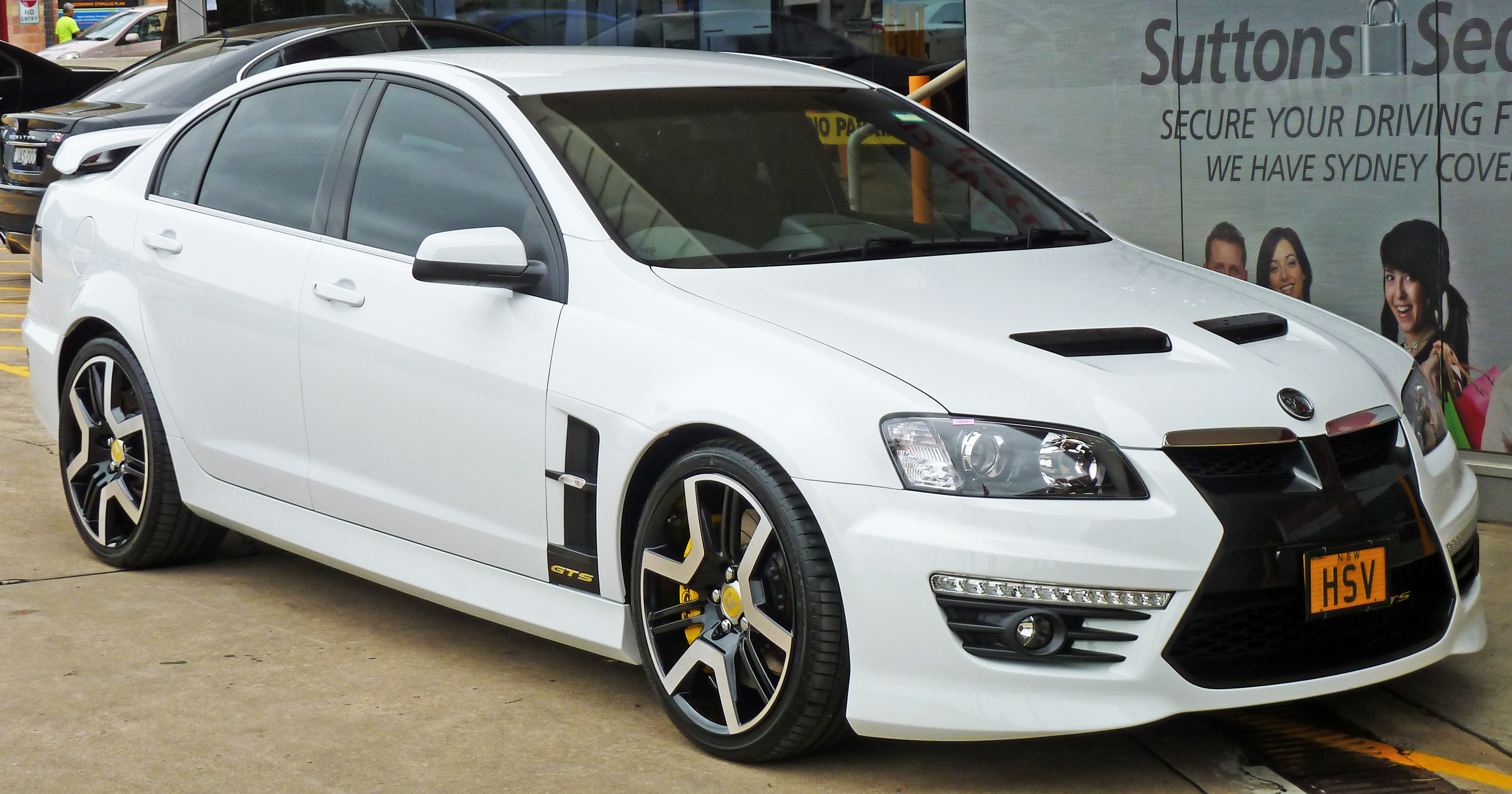 2010 HSV GTS (E Series 3 MY11) sedan. Photographed at Suttons Holden, Chullora, New South Wales, Australia.